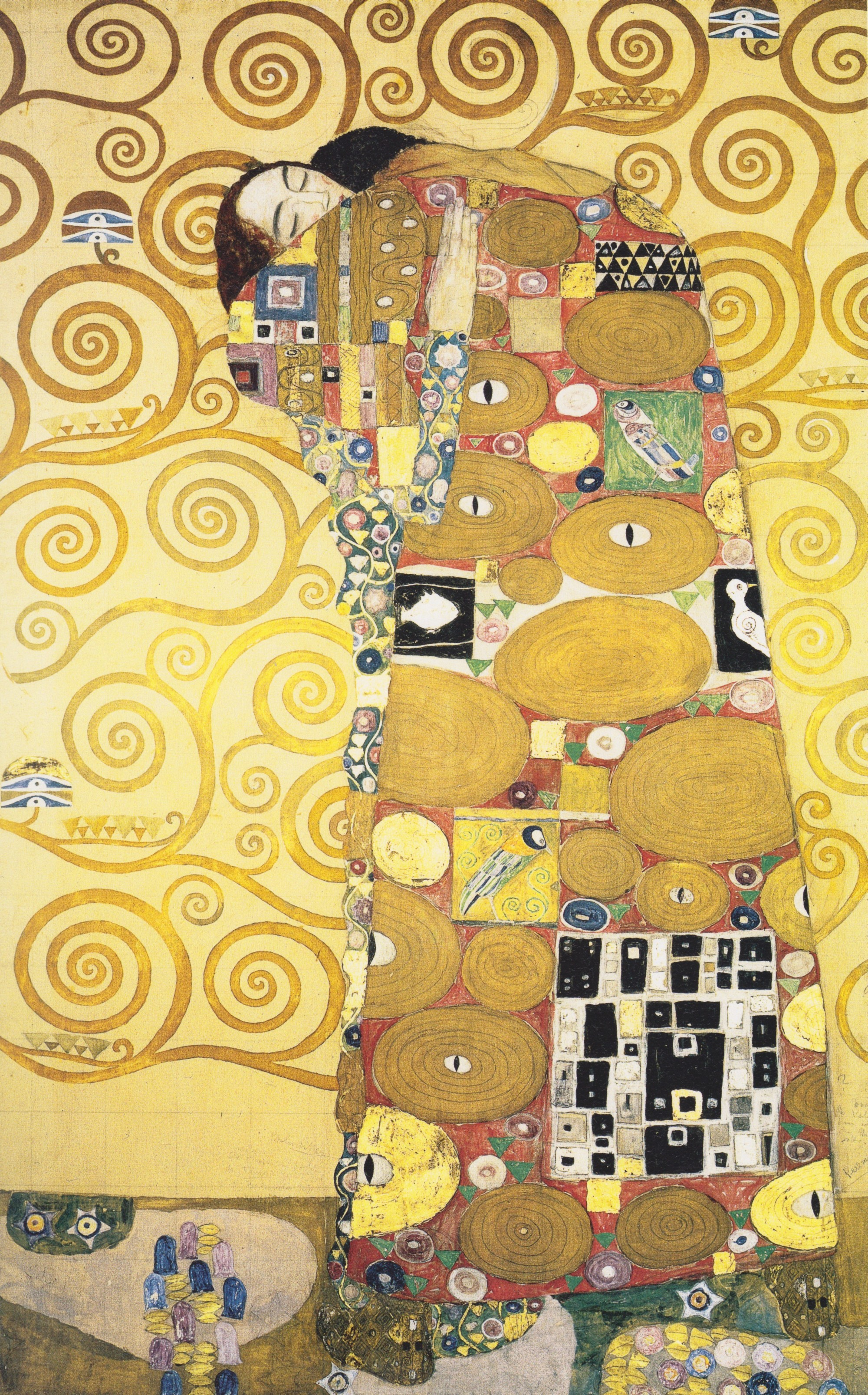 Preparatory design for the decoration of the interior of Stocklet Palace, Brussels, Belgium